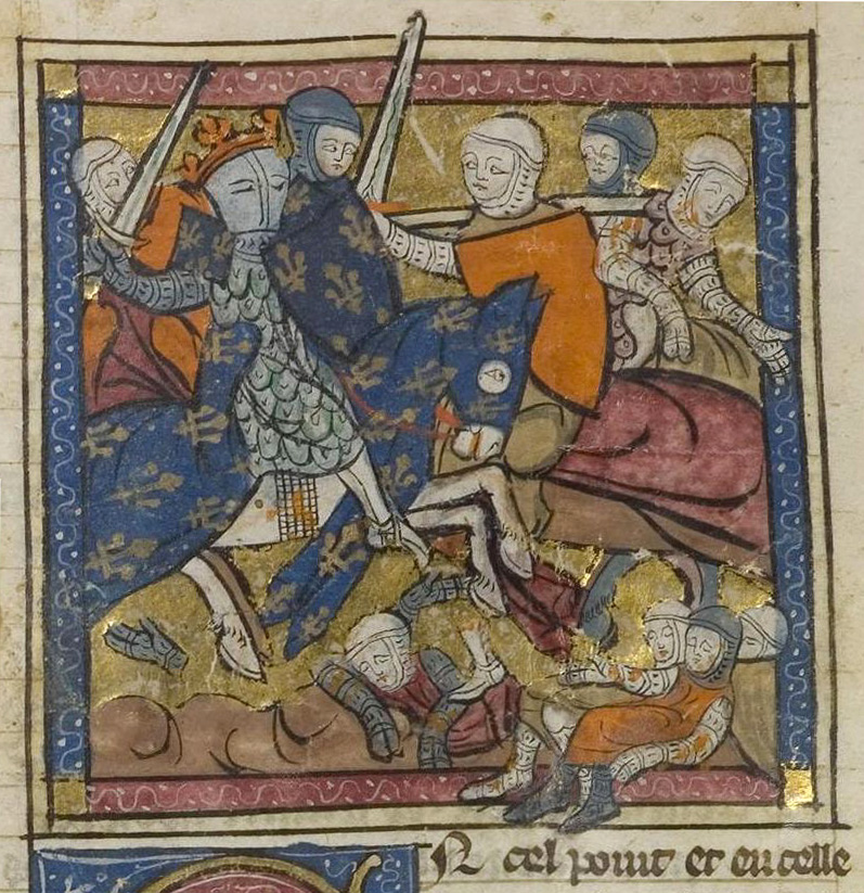 Battle of Bouvines.